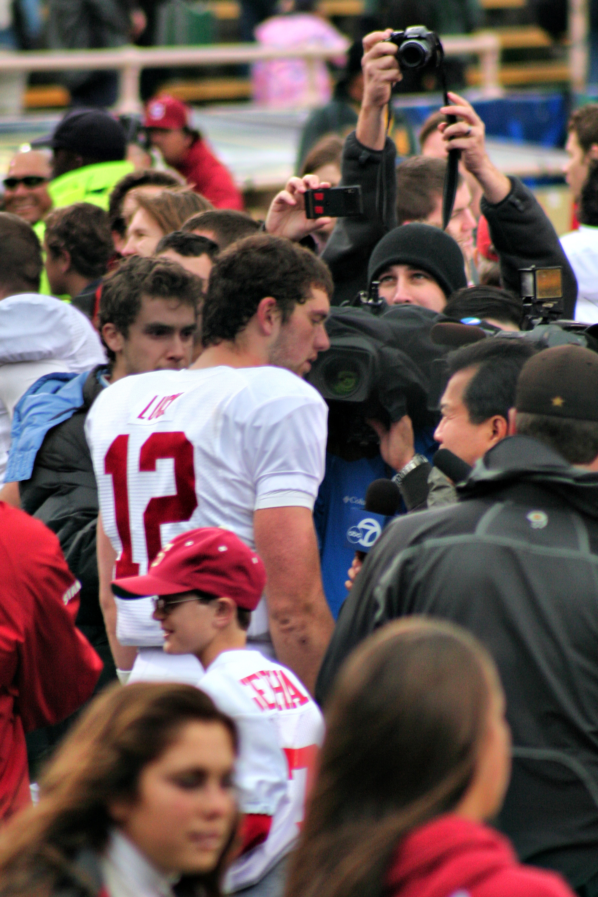 Andrew Luck faces the press after the Big Game between Stanford and Cal.